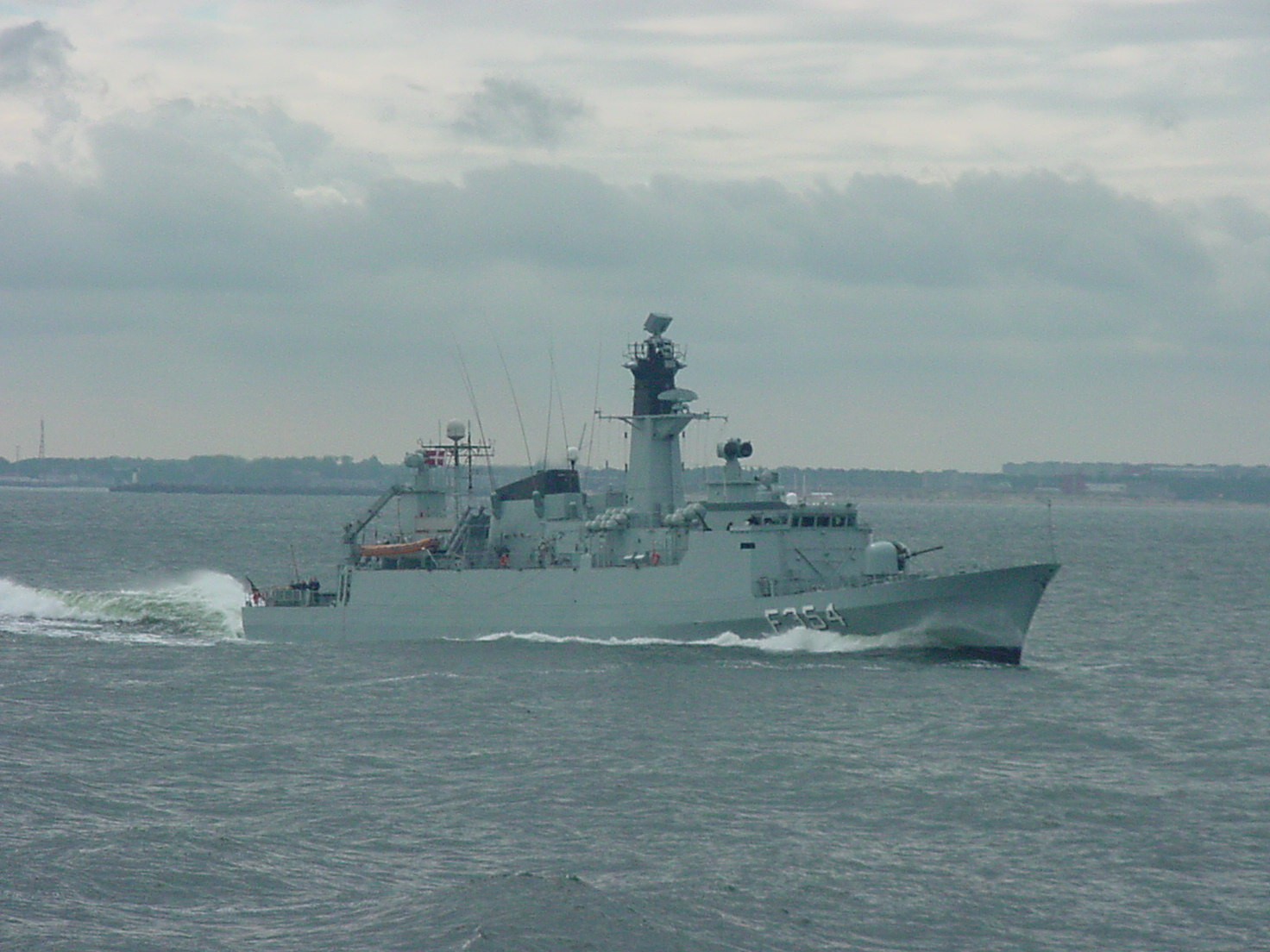 Ventspils, Latvia (June 6, 2005) — Danish frigate HDMS Niels Juel (F354) is currently underway participating in Baltic Operations (BALTOPS) 2005. In its 33rd year, BALTOPS is a maritime and land international exercise, co-hosted by Latvia and the United States, which includes 11 nations, 4,100 people, 40 ships, 28 aircraft and two submarines in the spirit of "Partnership for Peace (PFP)." BALTOPS 2005 improves interoperability with allies and PFP countries by conducting peace support operations at sea to include a combined amphibious landing and a scenario dealing with potential real world crisis.